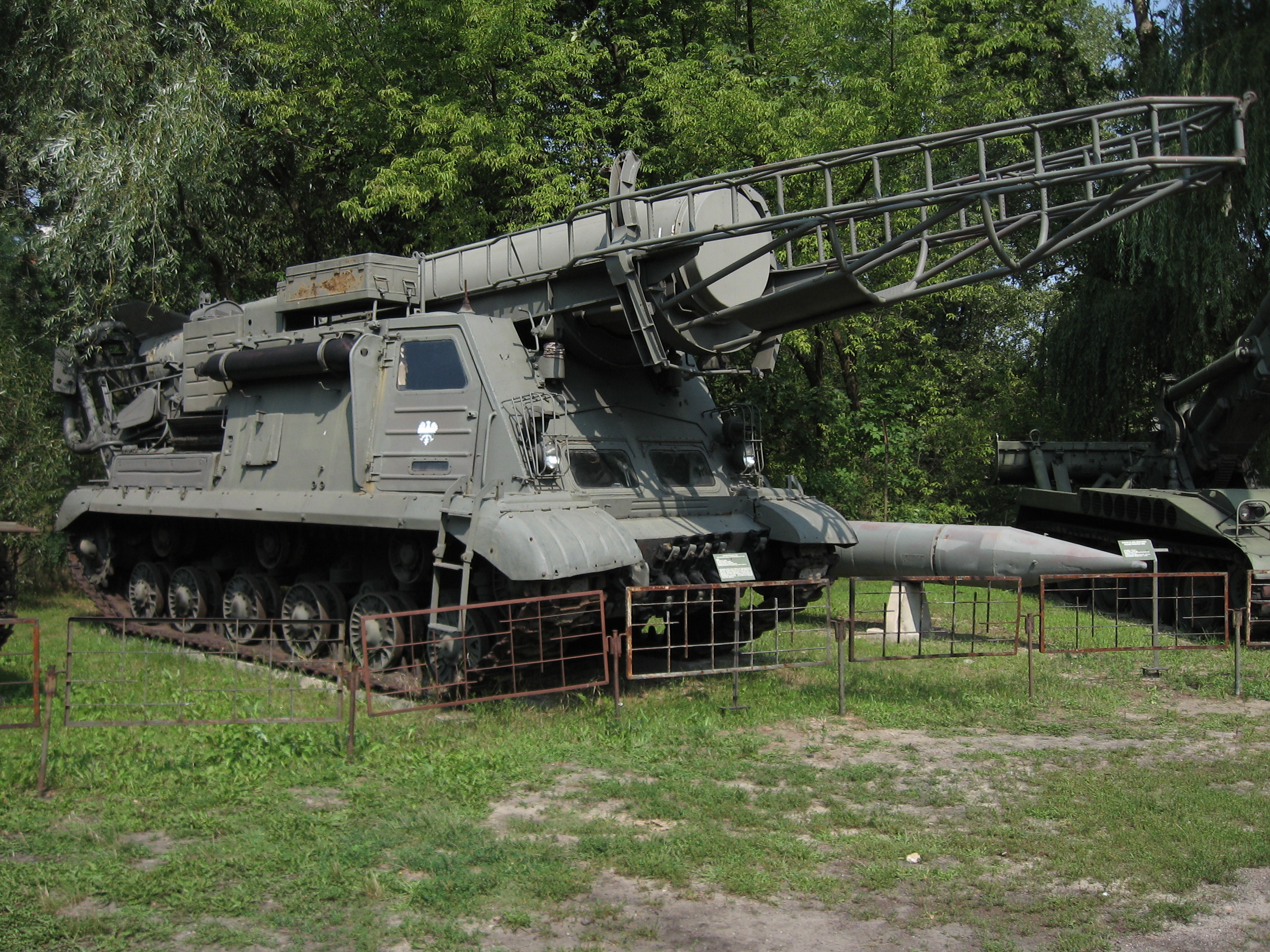 8U218 missle launcher at the Muzeum Polskiej Techniki Wojskowej in Warsaw.